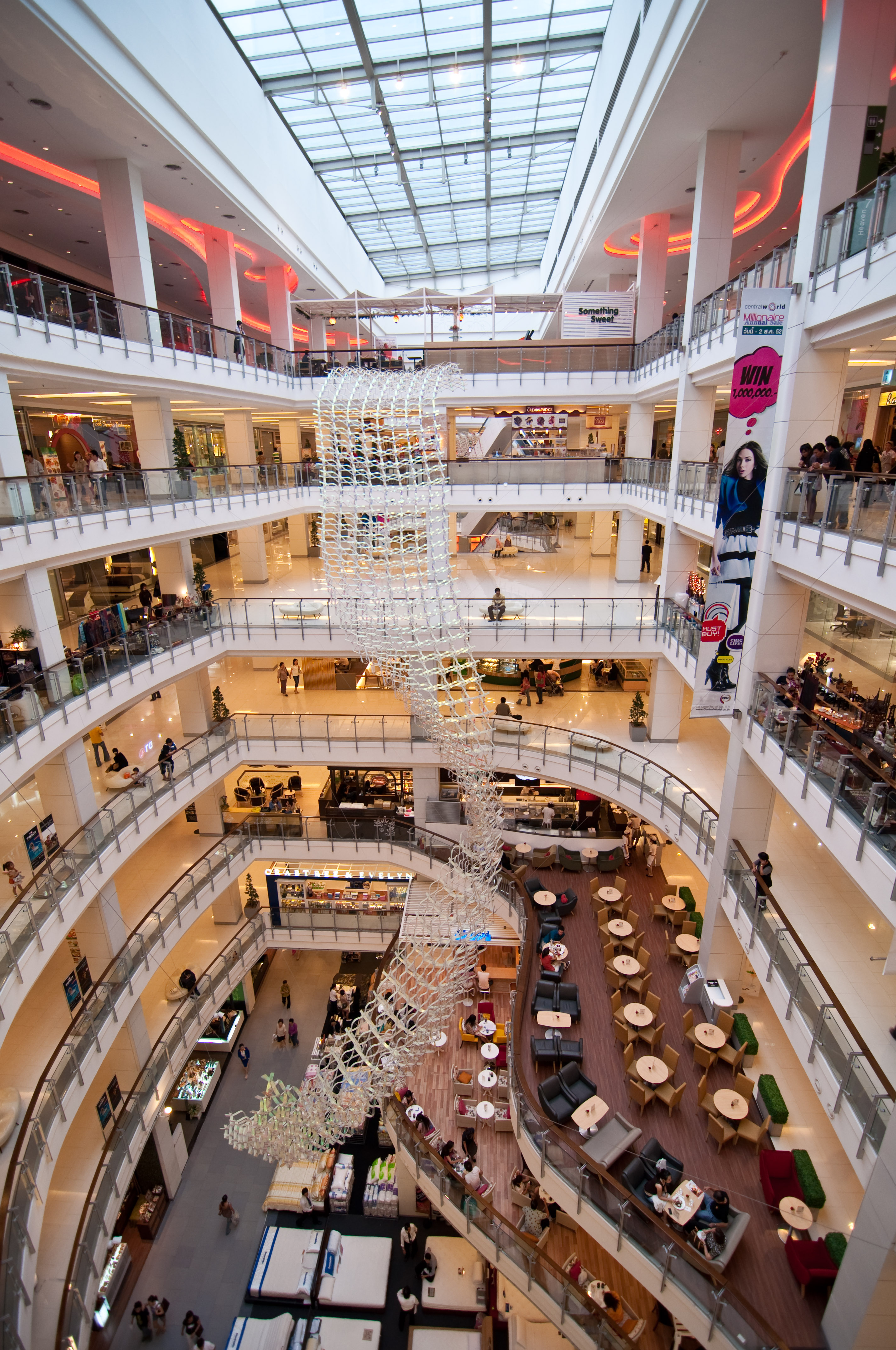 CentralWorld, Bangkok, Thailand one of the many atrium's in the CentralWorld Complex.